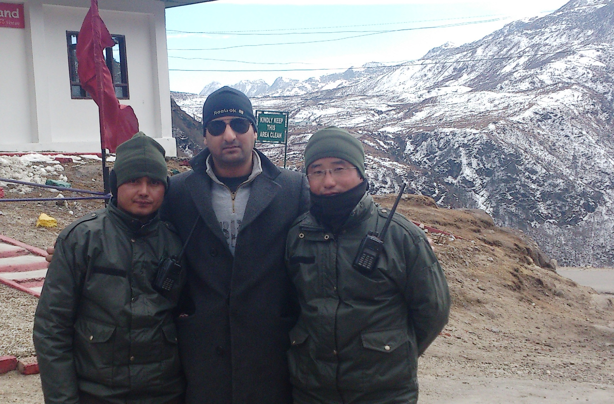 nathula pass with soldiers